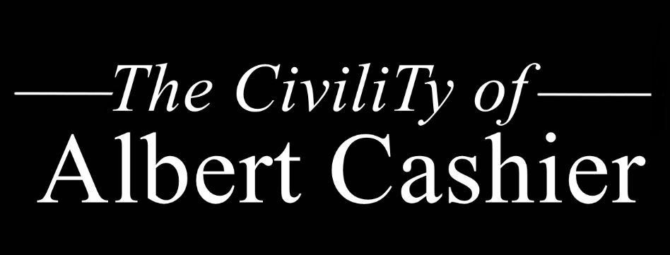 White text reading "The Civility of Albert Cashier" on a black background